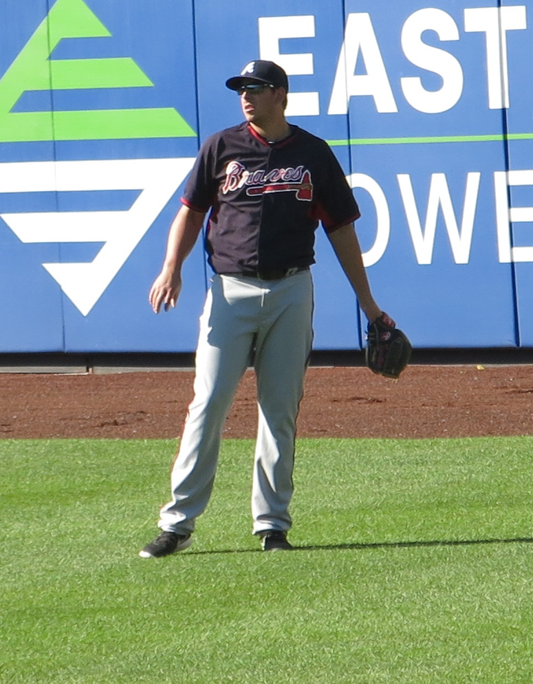 Aaron Blair of the Atlanta Braves, June 17, 2016.